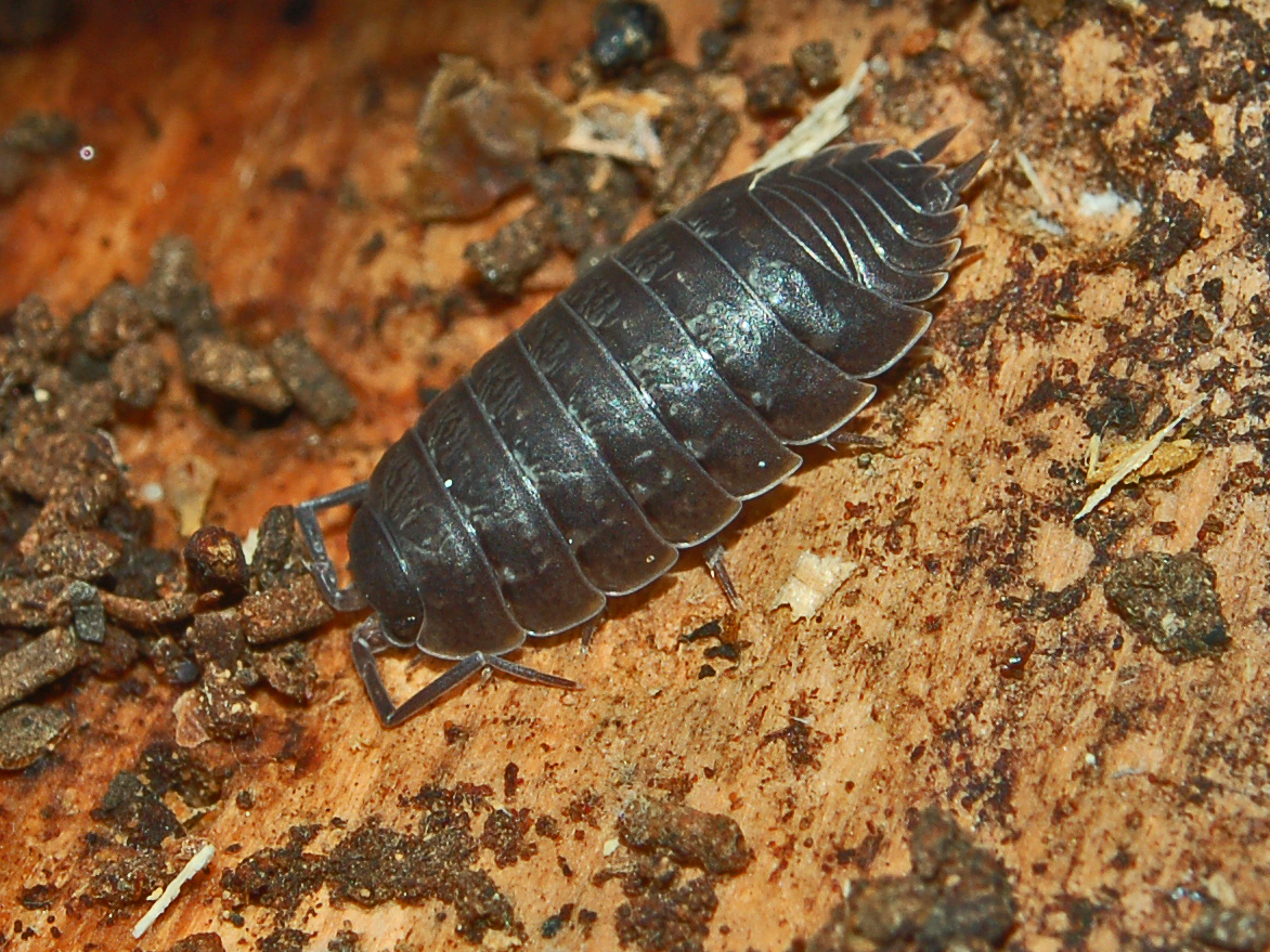 Porcellio pumicatus in Genova, Italy